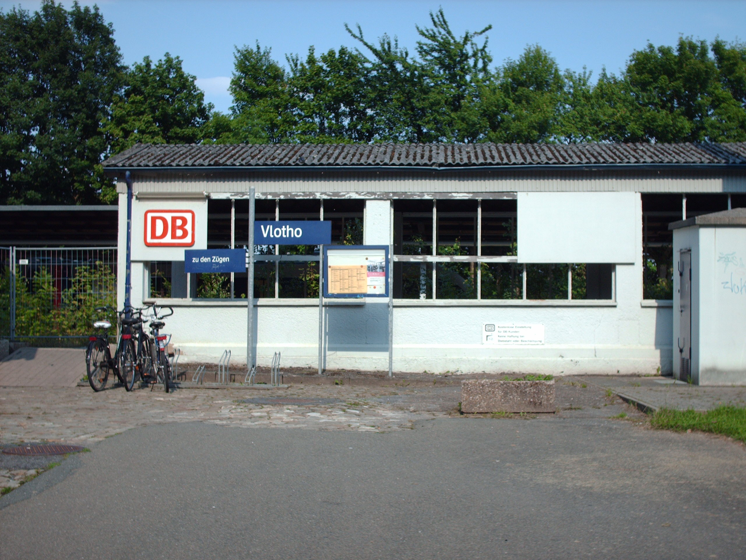 Vlotho station, Vlotho, District of Herford, North Rhine-Westphalia, Germany check usage